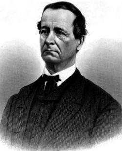 Illustration from "The Fortieth Congress of the United States: Historical and Biographical" by William Horatio Barnes